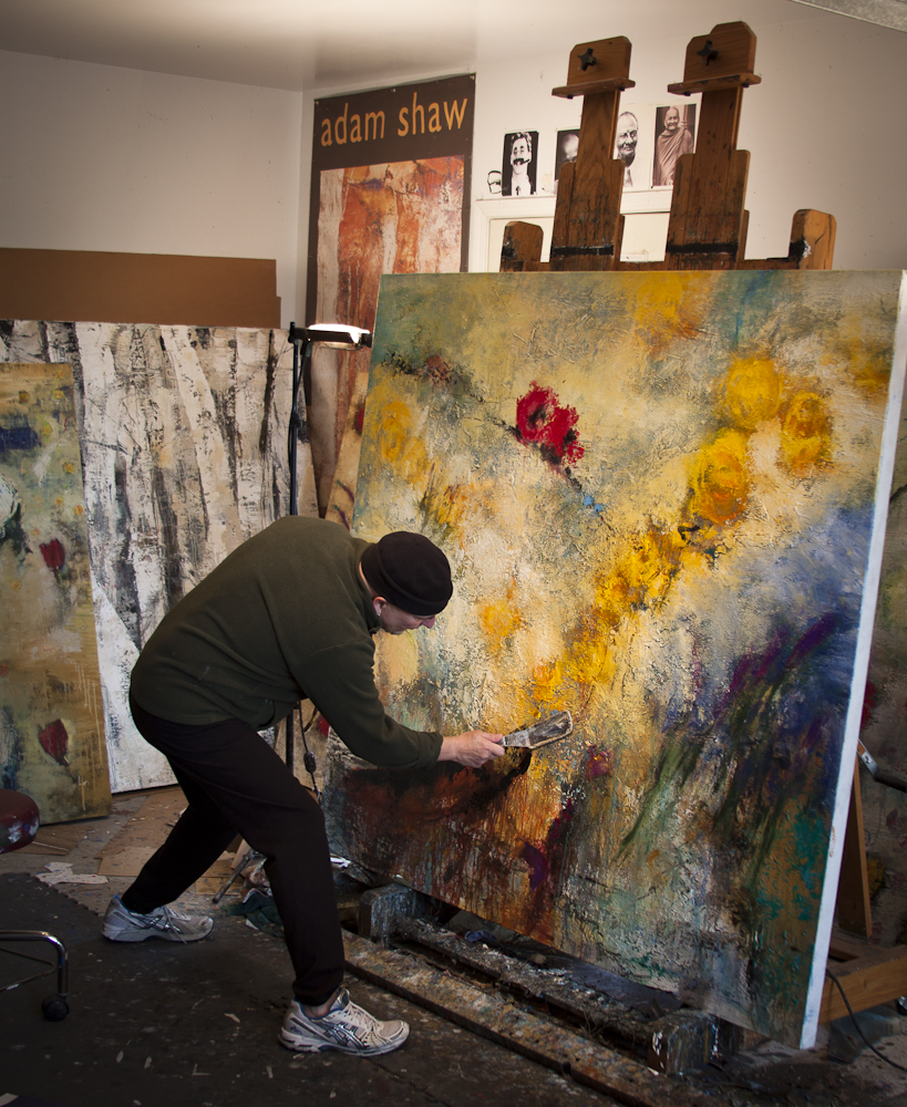 The artist at work